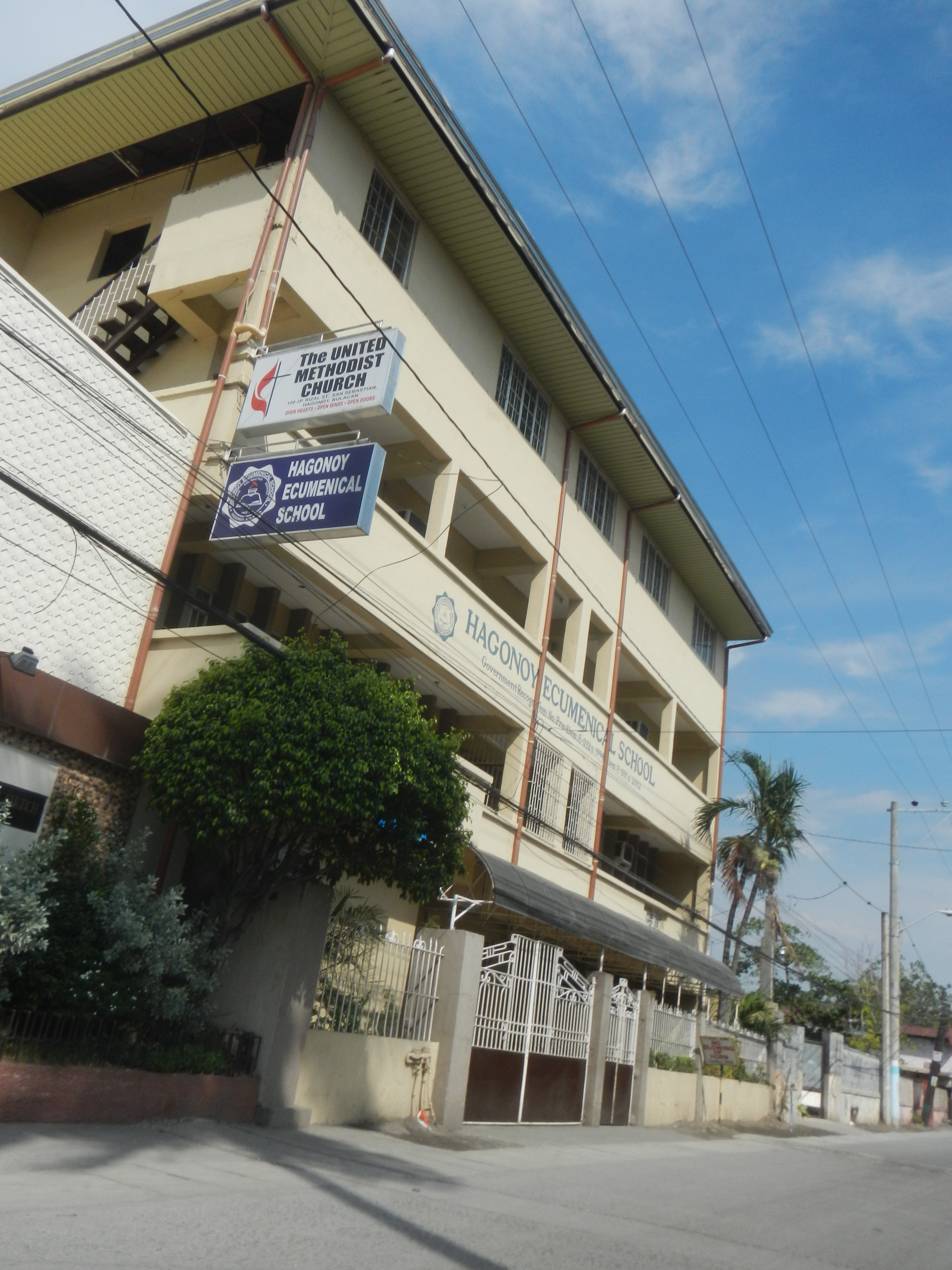 Floods-high tide (Santo Niño-San Sebastian, Hagonoy Town Proper, Bulacan) High tide Garbage problem exacerbates Hagonoy floods flood reached up to 4.9 meters high June 26, 2017; in Hagonoy Town Proper Barangays Santo Niño 14°50'26"N 120°44'33"E San Sebastian 14°49'42"N 120°44'14"E San Nicolas 14°48'58"N 120°43'50"E Hagonoy, Bulacan (Note: Judge Florentino Floro, the owner, to repeat, Donor Florentino Floro of all these photos hereby donate gratuitously, freely and unconditionally all these photos to and for Wikimedia Commons, exclusively, for public use of the public domain, and again without any condition whatsoever).